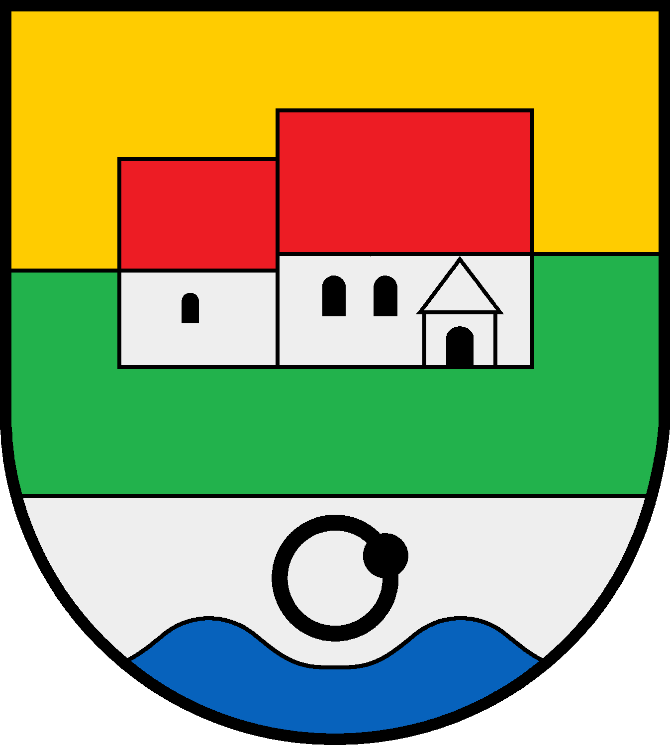 Coat of arms of the municipality Olderup in Schleswig-Holstein, Germany.